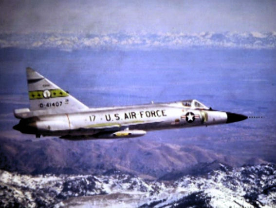 A U.S. Air Force Convair F-102A-40-CO Delta Dagger (s/n 54-1407) from the 190th Fighter Interceptor Squadron, 124th Fighter-Interceptor Group, Idaho Air National Guard. The 190th FIS flew the F-102A from 1964 to 1975.